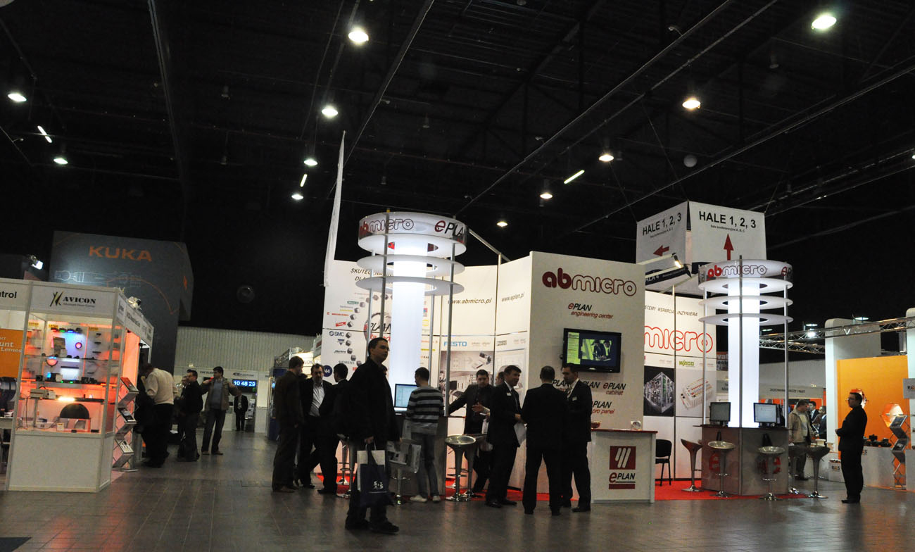 Automaticon 2011